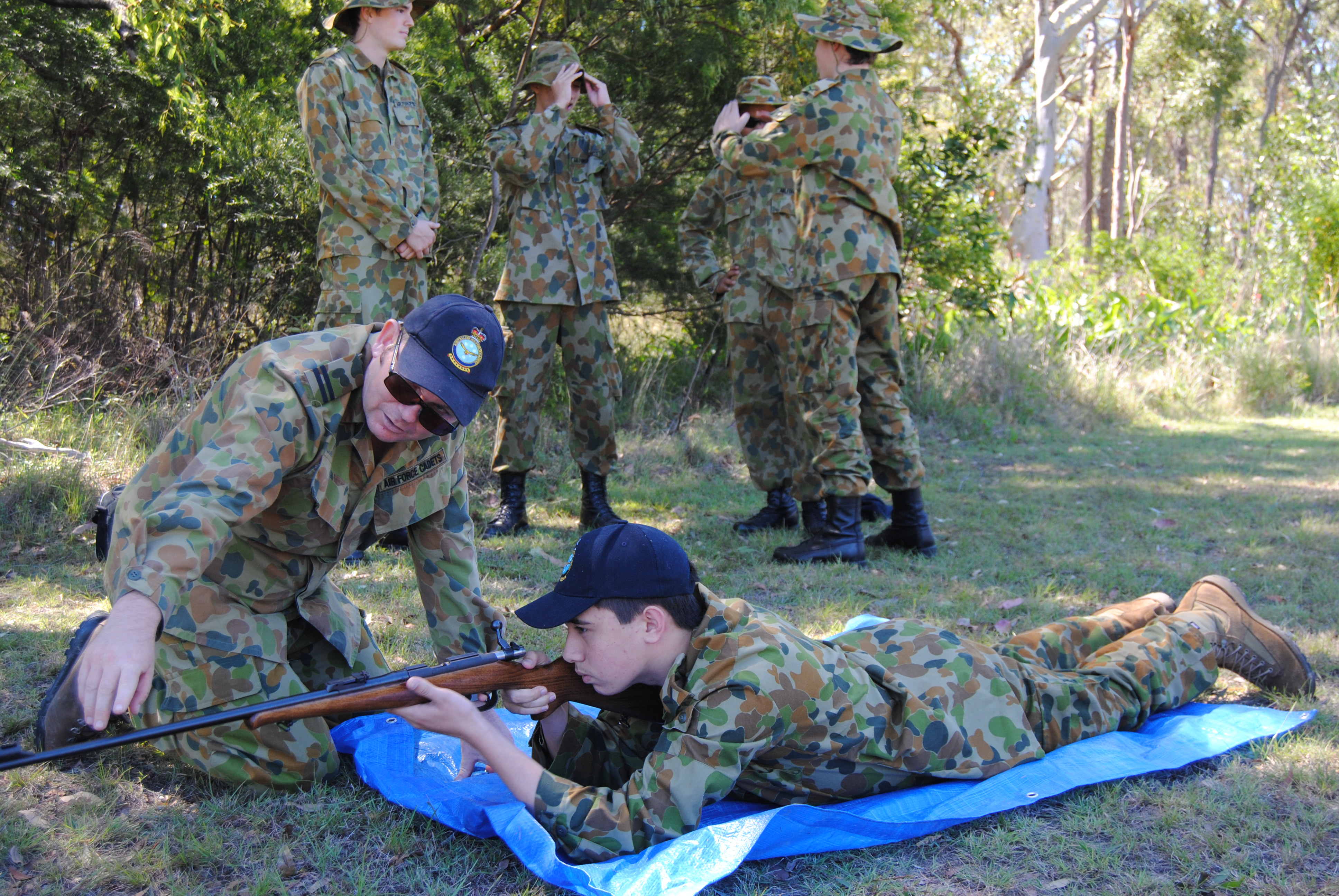 LCDT Ben Bishop being trained by Cadet Training Officer Hart how to operate the rifle at the range.